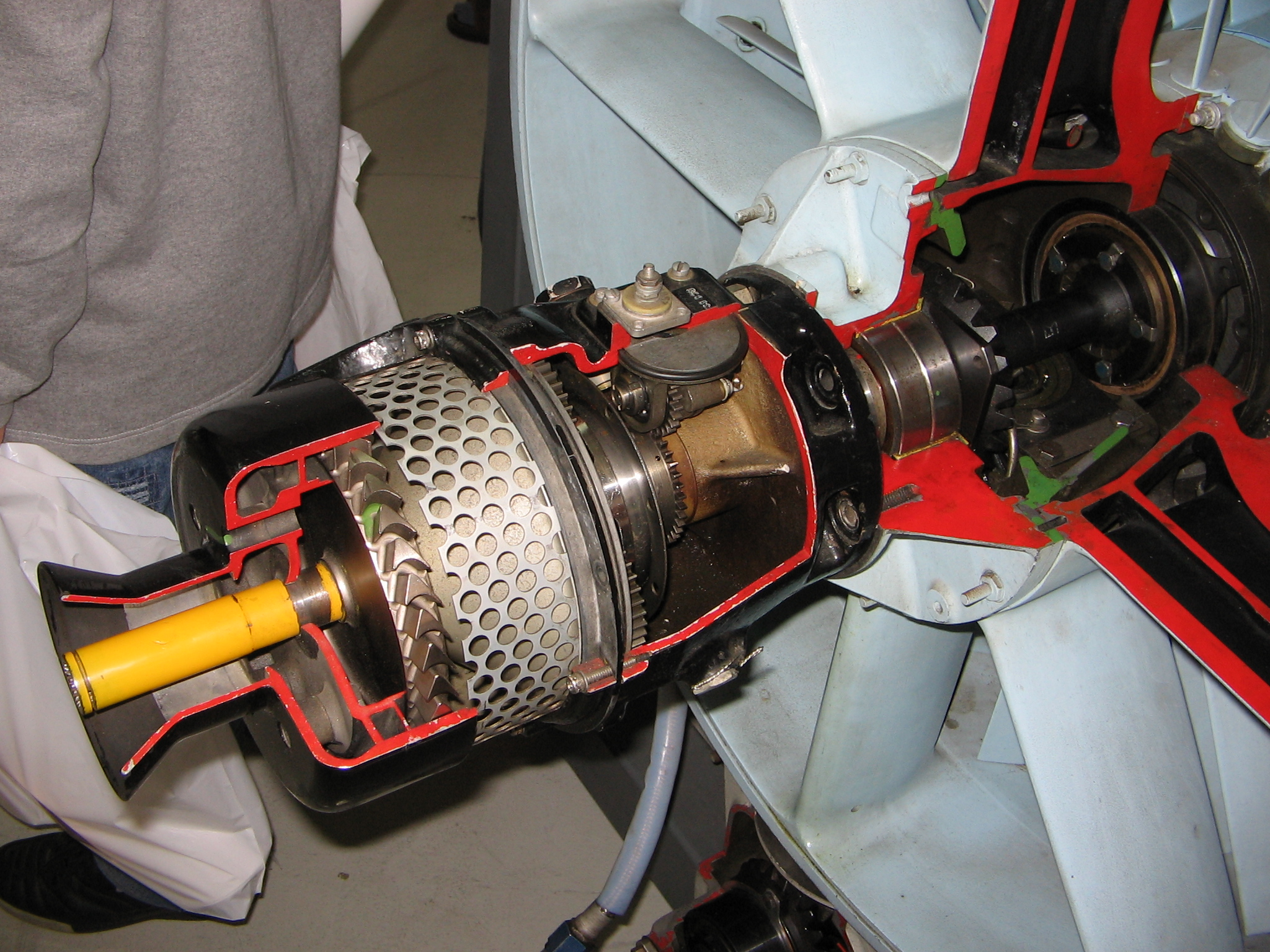 Air start system of a General Electric J79 on the intake side.Taken during an open day event at Ingolstadt Manching Airport.